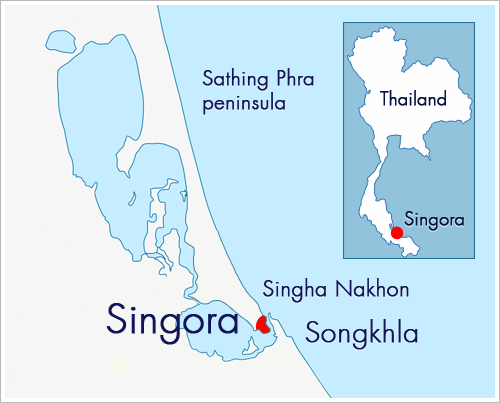 Location of the Sultanate of Singora